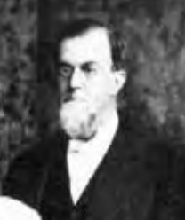 Cropped 1890 image of California Supreme Court Justice James D. Thornton